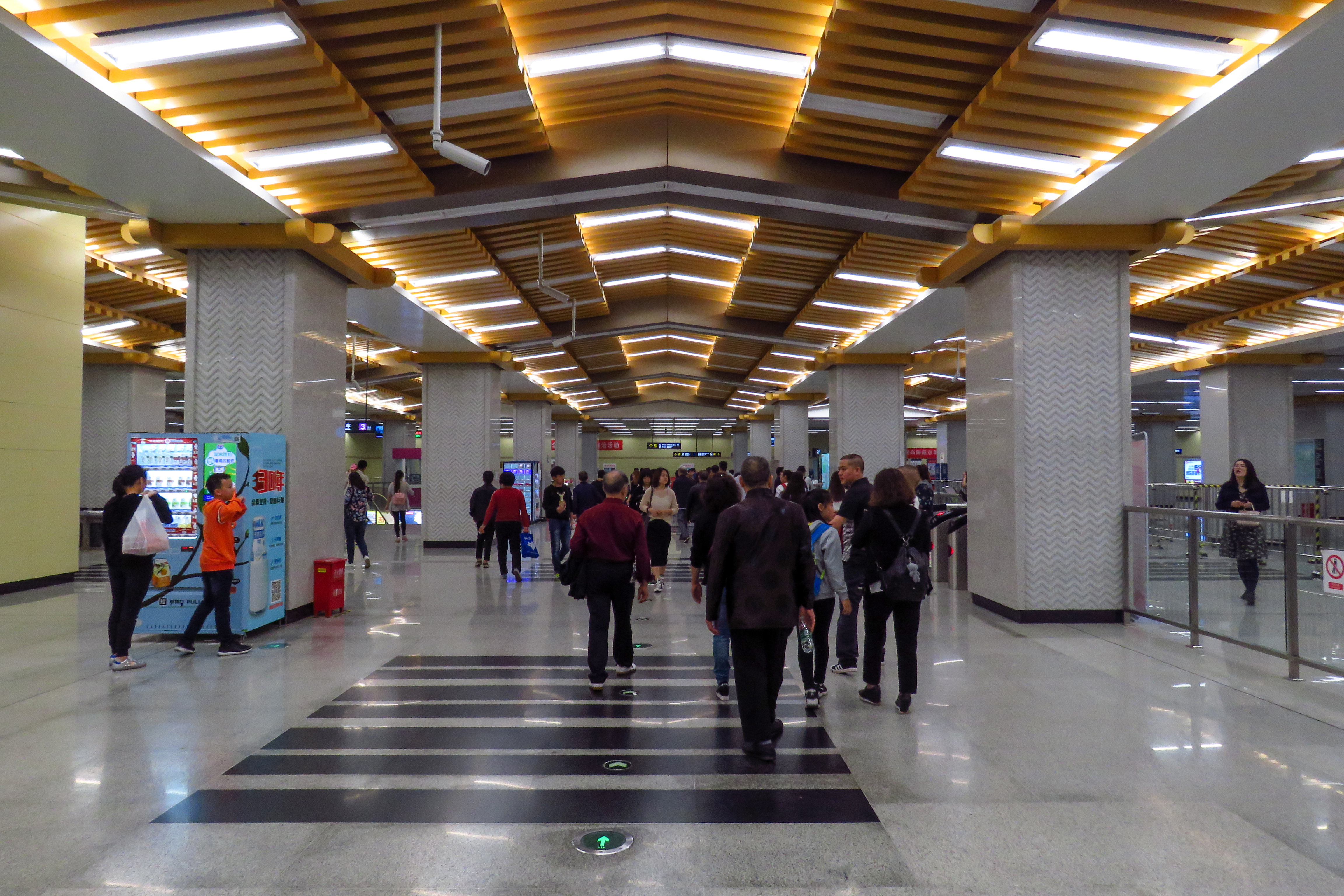 The central span doesn't lead to the platform.